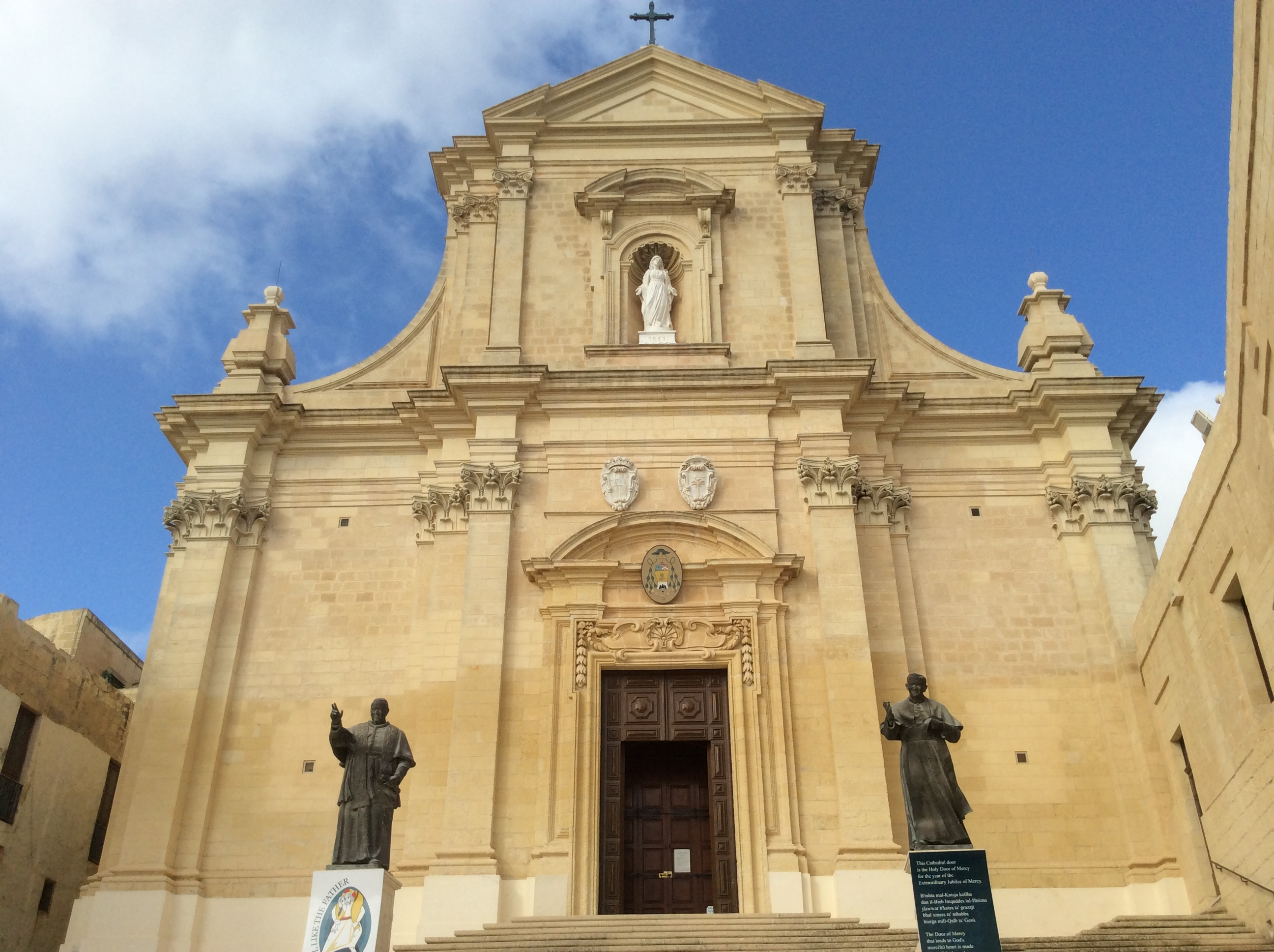 Cathedral of the Assumption, Gozo